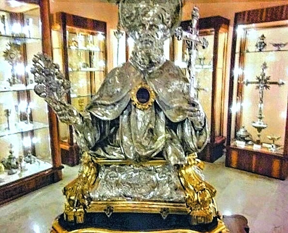 Silver statue of St. Otho Frangipane (17th century) in the Silver Museum, Ariano Irpino (Italy)